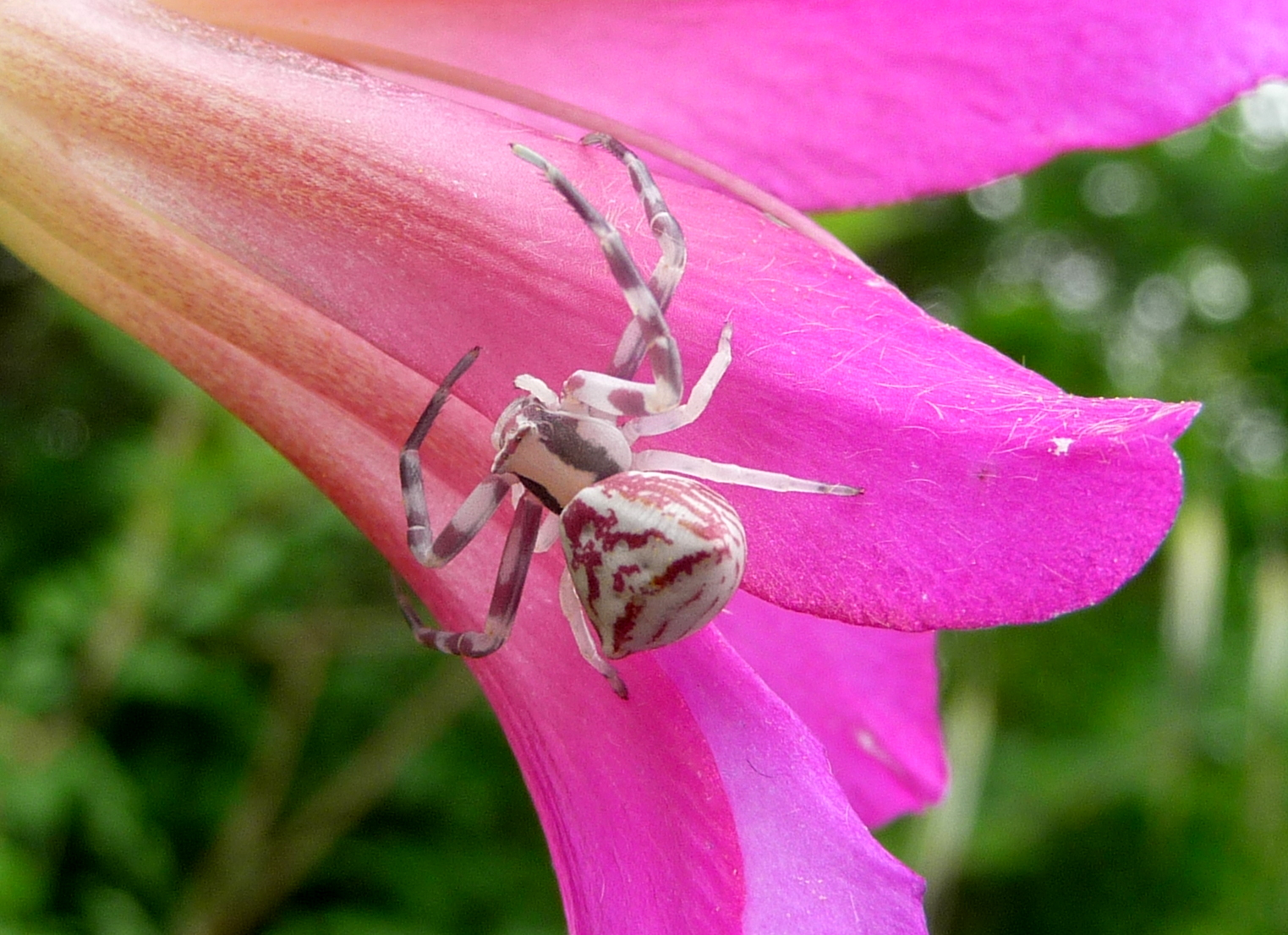 Thomisus onustus, on flower of Gladiolus Italicus - near livorno, Tuscany, Italy